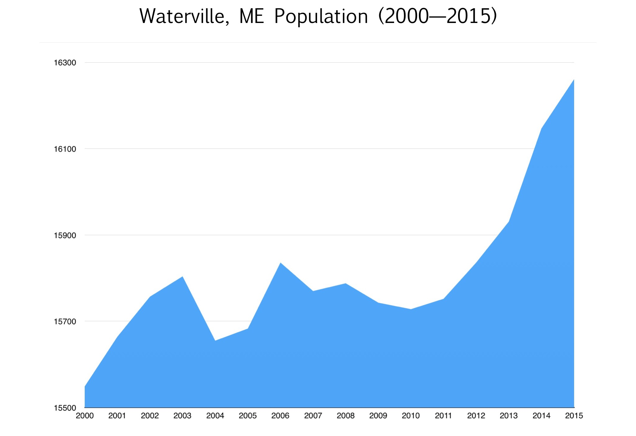 A chart showing the population of Waterville, Maine from 2000 to 2015, according to data from the United States Census Bureau.